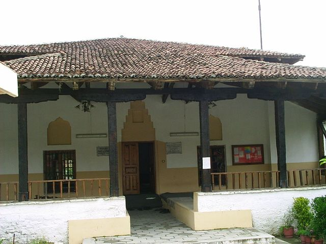 City of Elbasan, Albania